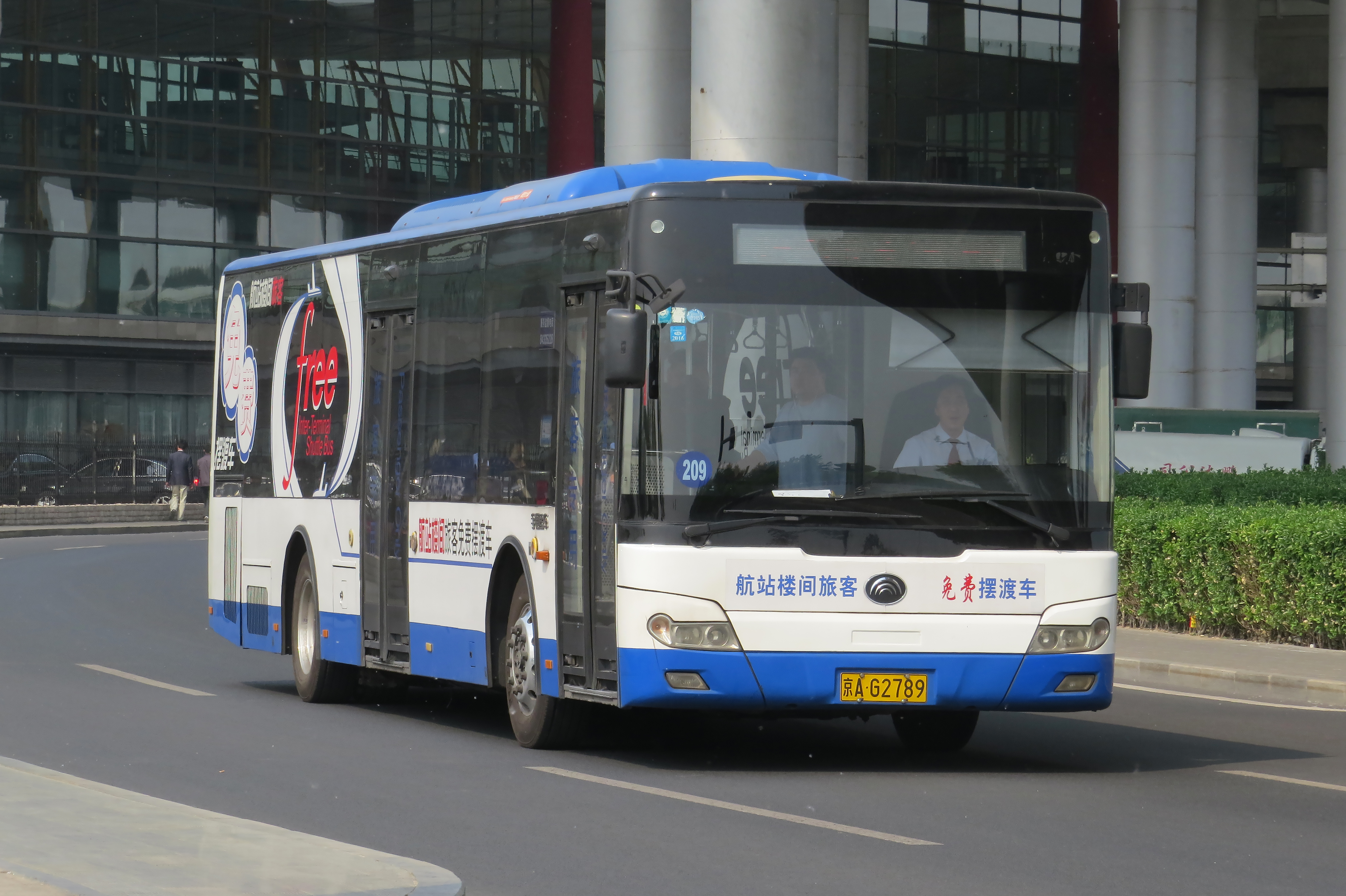 Taken on the road to T3 parking lot.